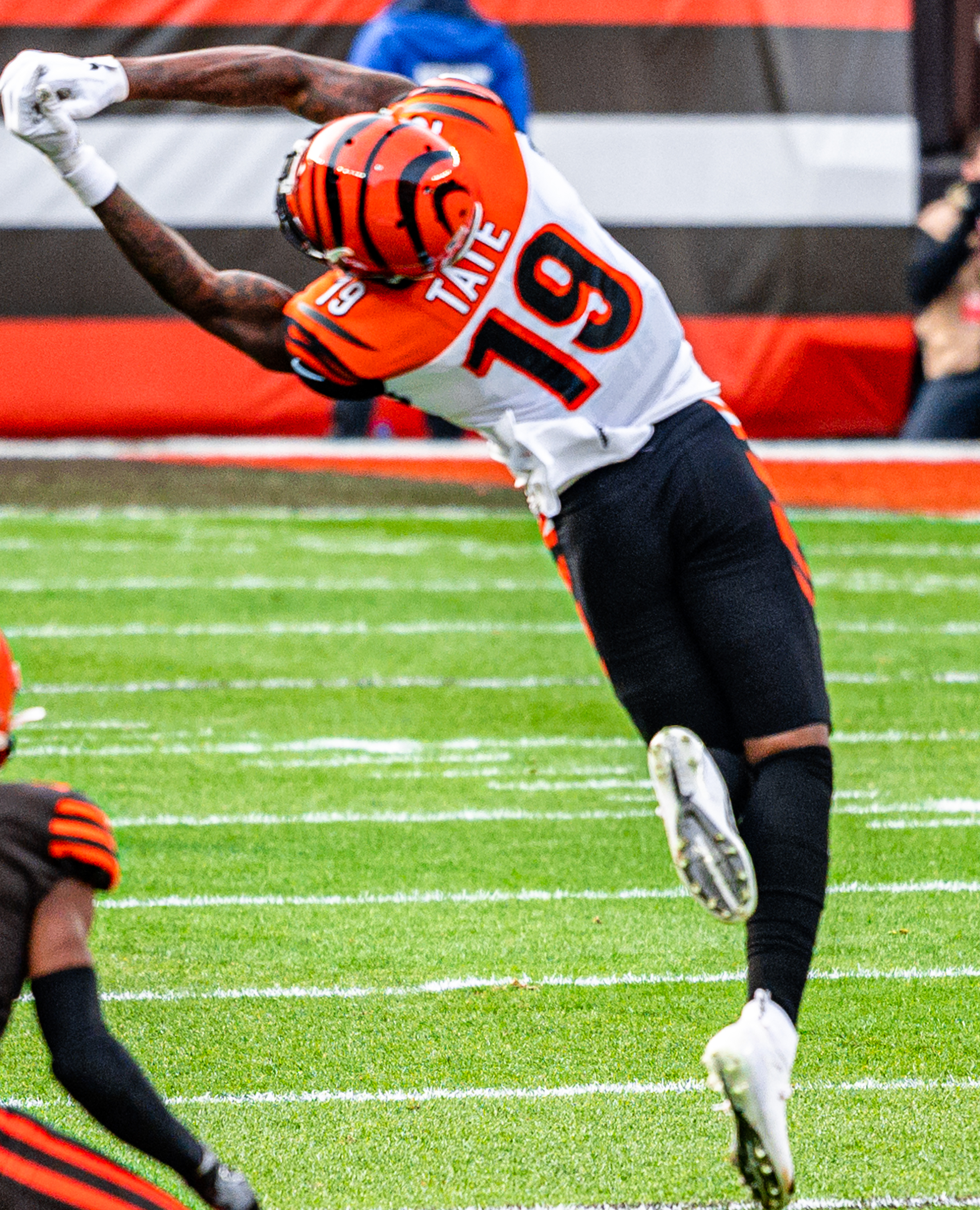 Cleveland Browns vs. Cincinnati Bengals